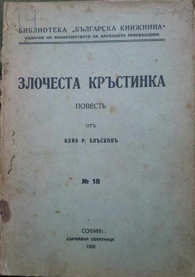 Home page story "Unfortunate Krystinka" of Ilia Blaskov, edition 1928